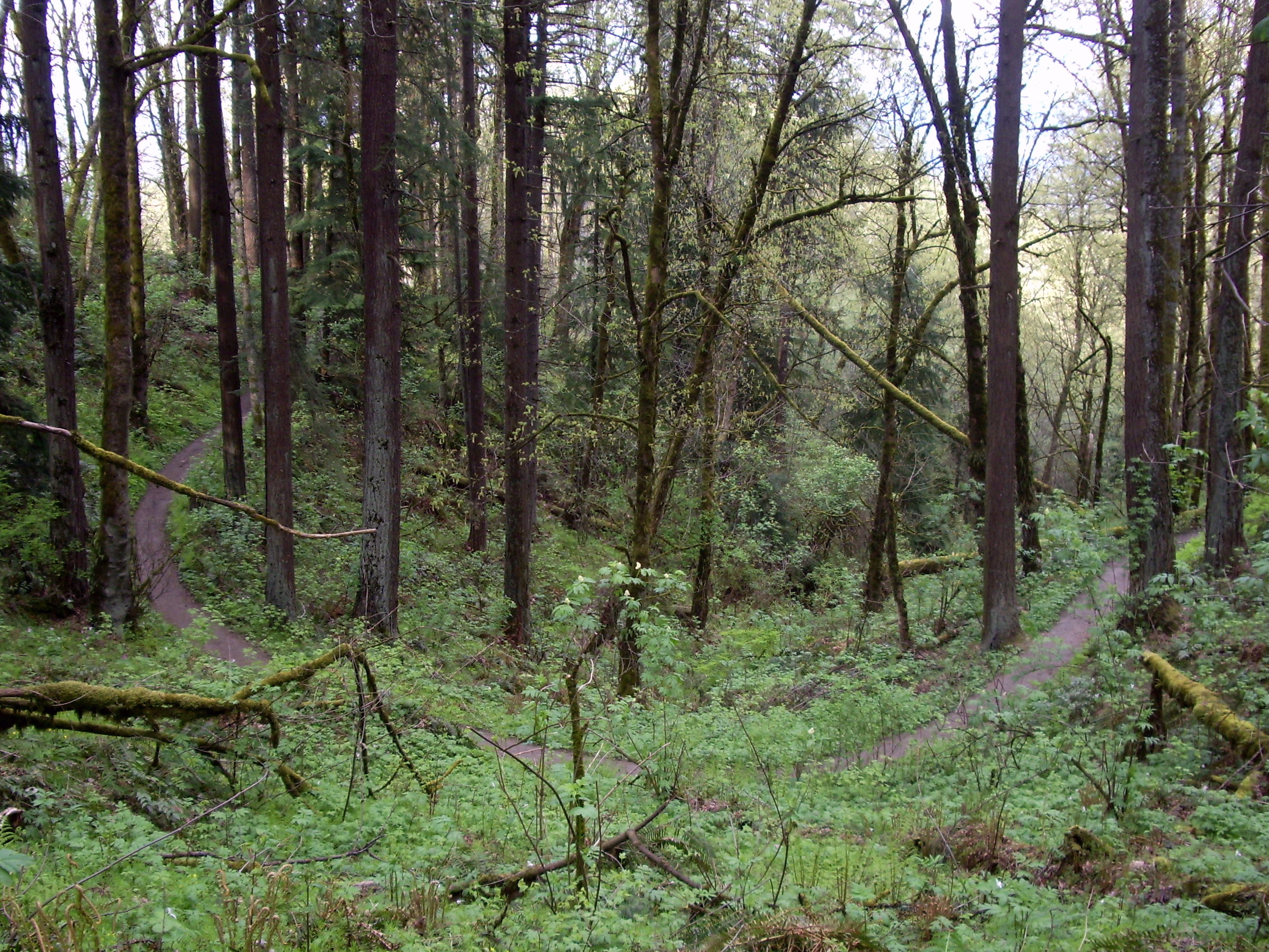 A lazy turn of the Wildwood Trail such as this is uncommon in Forest Park. Most creeks descend a reasonably steep grade toward the east (in background) and the trail makes sharp turns to maintain a reasonably level grade. This area had been logged some 50 years before, perhaps to be developed for housing. Many such lots were acquired by the City of Portland when the owners defaulted on taxes or road building assessments, or sold to the city once expansion of the park began in earnest in the 1940s.